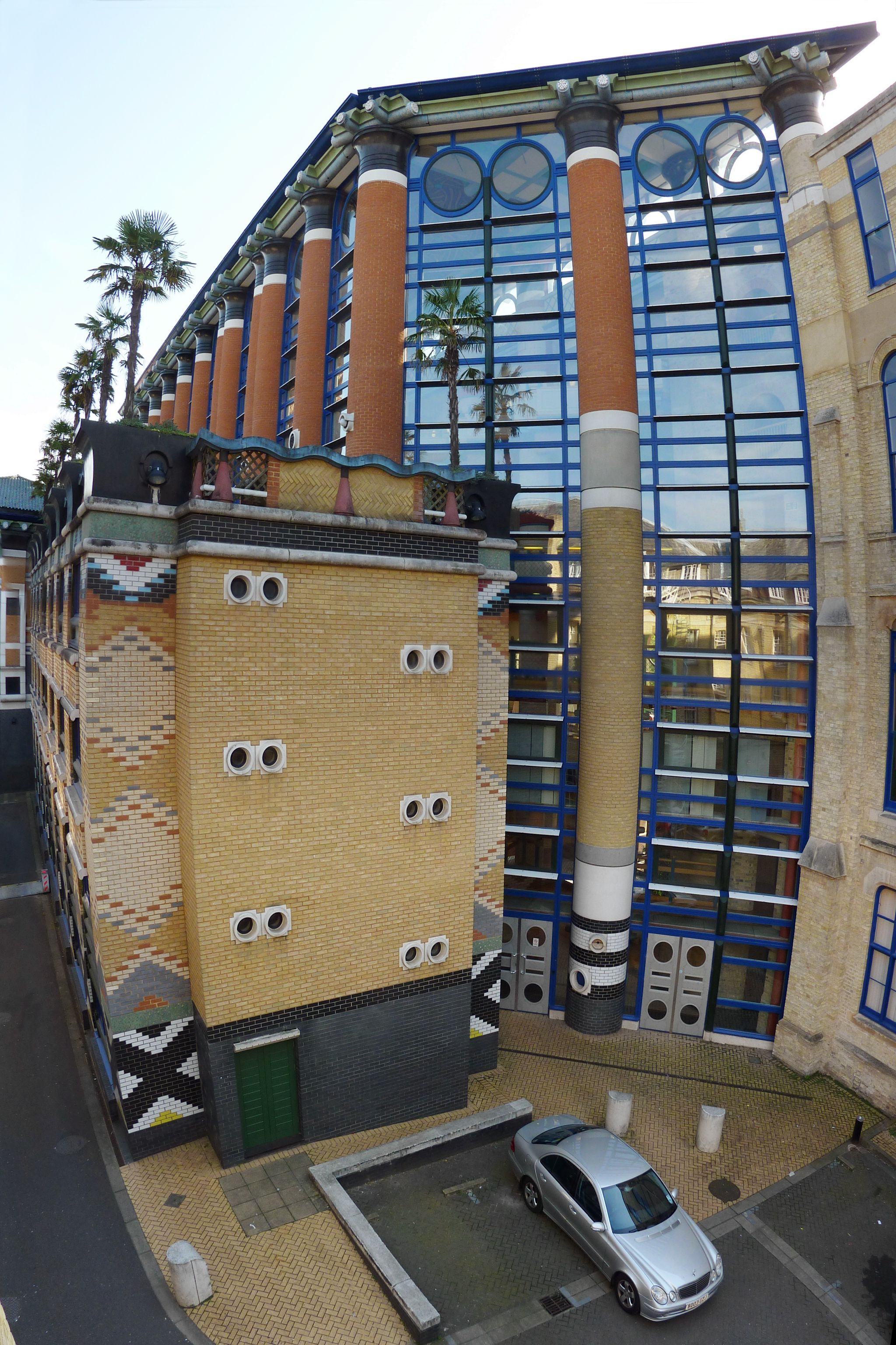 Fisheye stiched panorama of the rear aspect of the Judge Business School, Cambridge, UK.